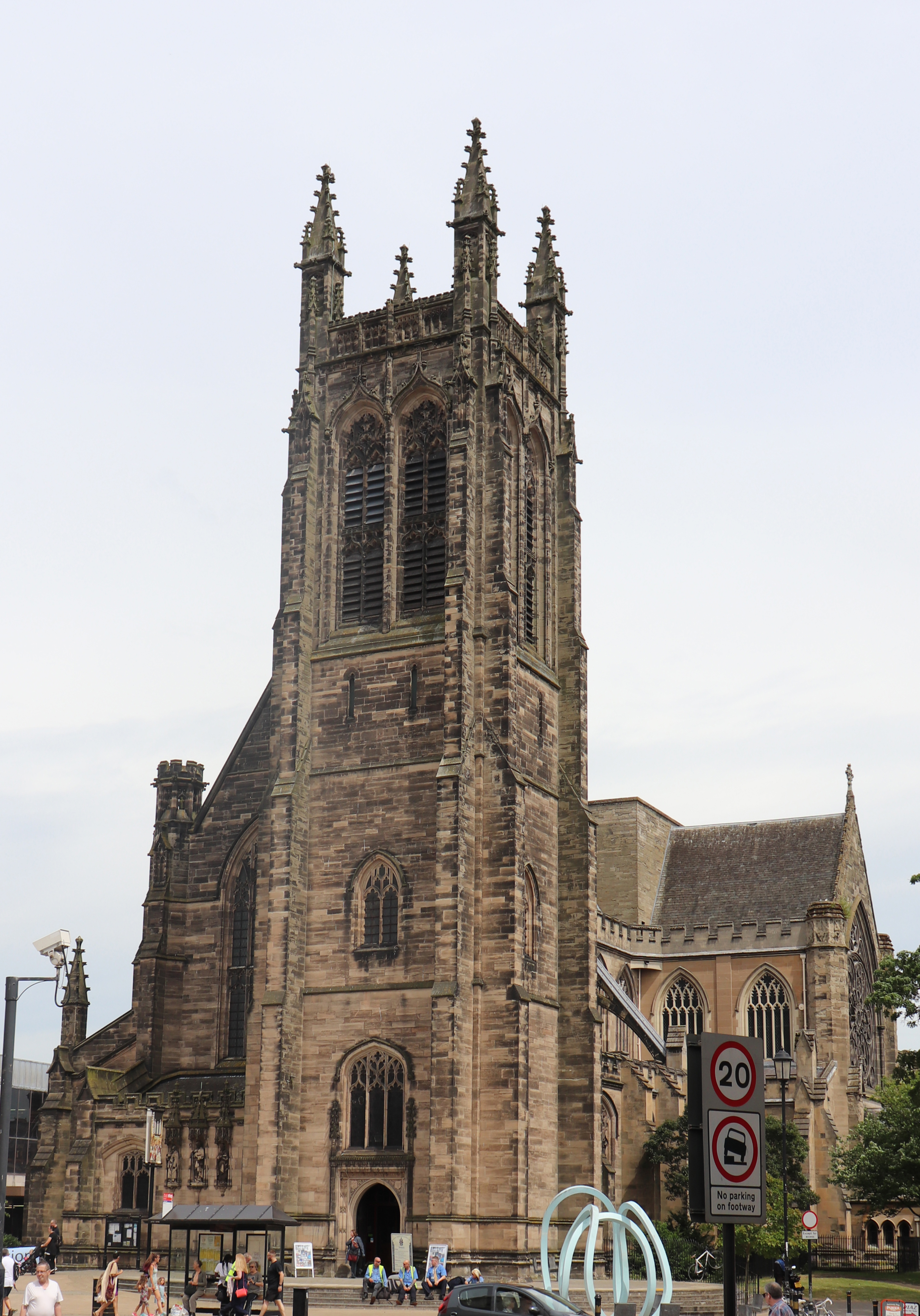 All Saints Church, Victoria Terrace, Leamington Spa